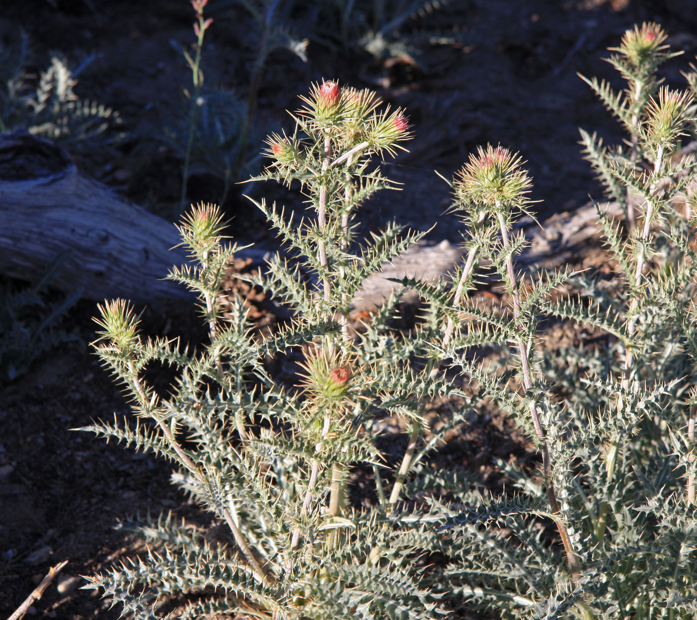 Yellowspine thistle (Cirsium ochrocentrum) — showing partly-open flowers with spiny phyllaries, and the numerous leaves with long spines pointing in all directions. Along Methuselah Trail in the Ancient Bristlecone Pine Forest of the Inyo National Forest, in the White Mountains, eastern California.